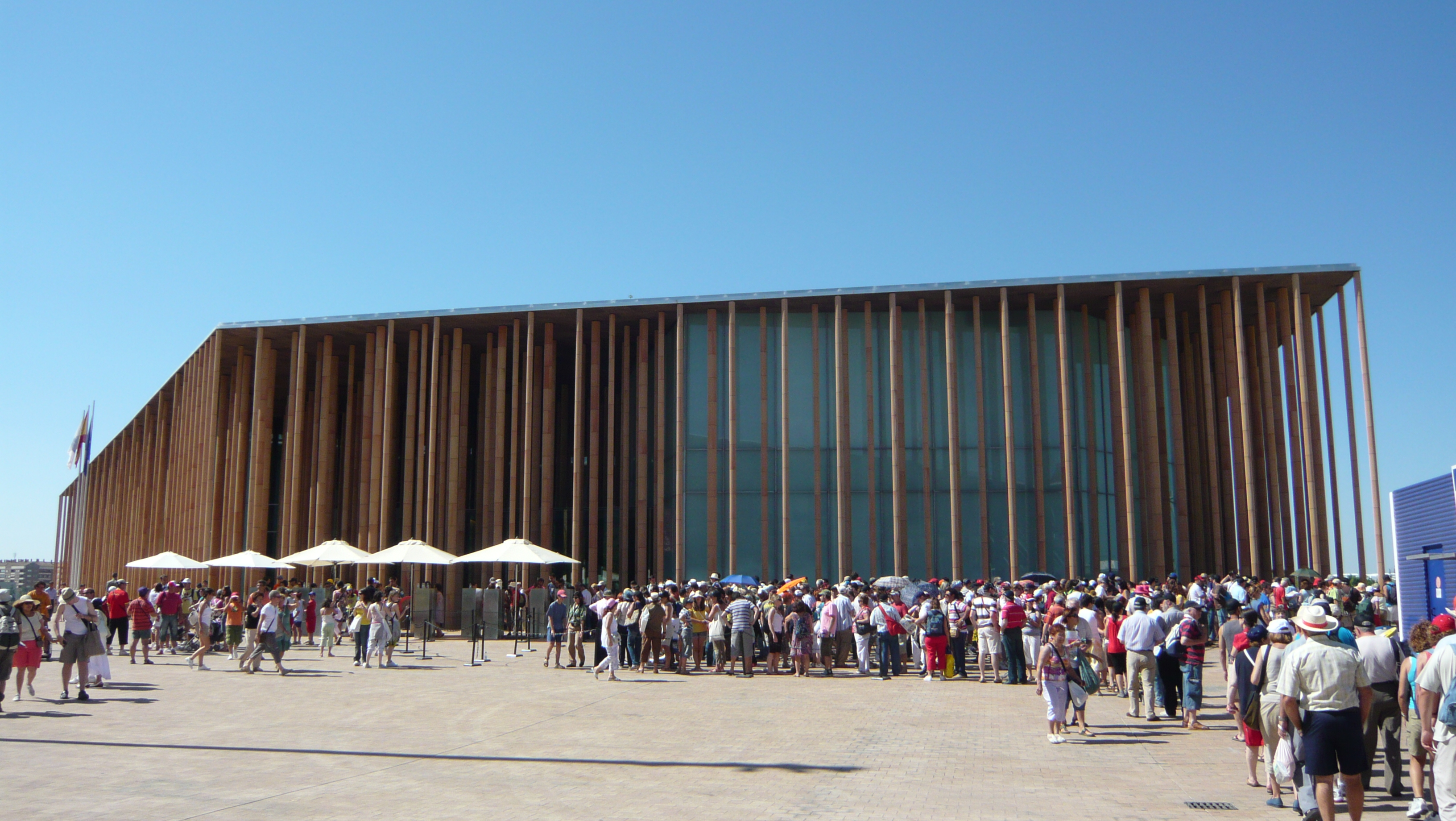 Spanish Pavilion of The International Exposition of Zaragoza 2008